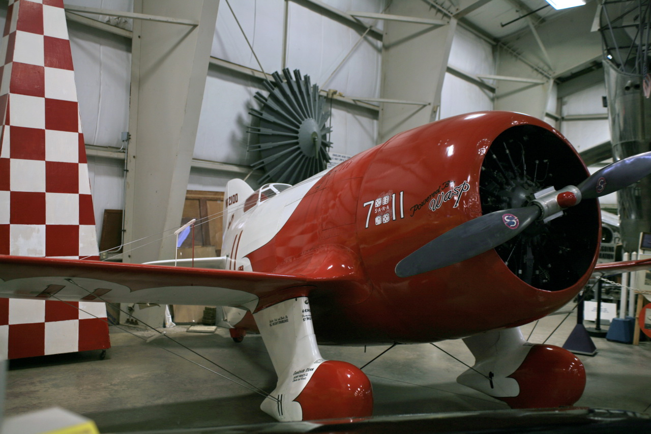 With this in mind and a lot of help from Howell "Pete" Miller, the R-1's designer, the museum built this plane using as closely as possible 1932 vitage materials and work methods. An engine was located whose serial number is only 2 digits away from the original, and the rare propeller was donated by its manufacturer, Howard Smith.